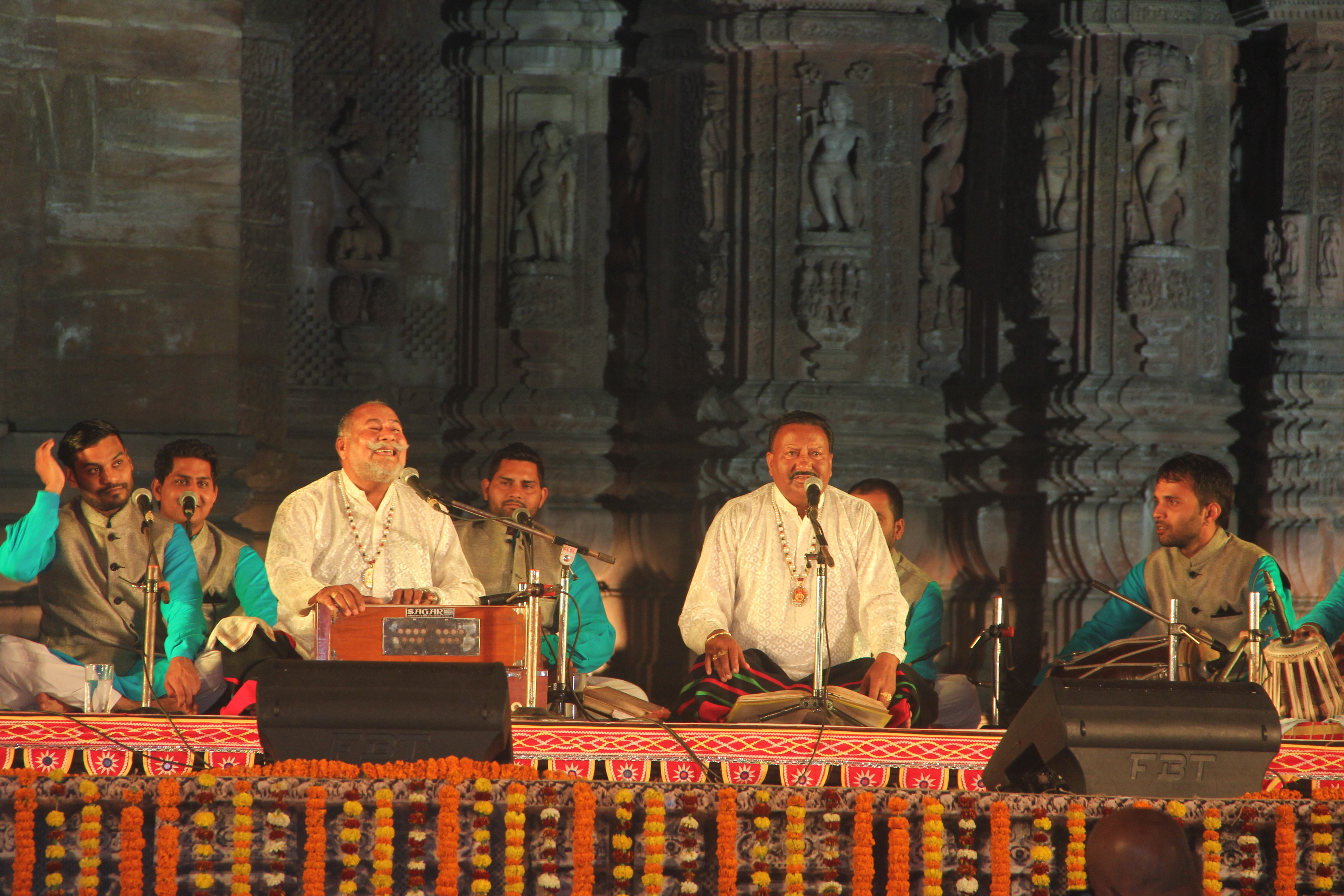 Wadali Brothers Puranchand Wadali & Pyarelal Wadali Performing Sufi Song at Rajarani Music Festival-2016, Bhubaneswar, Odisha, India